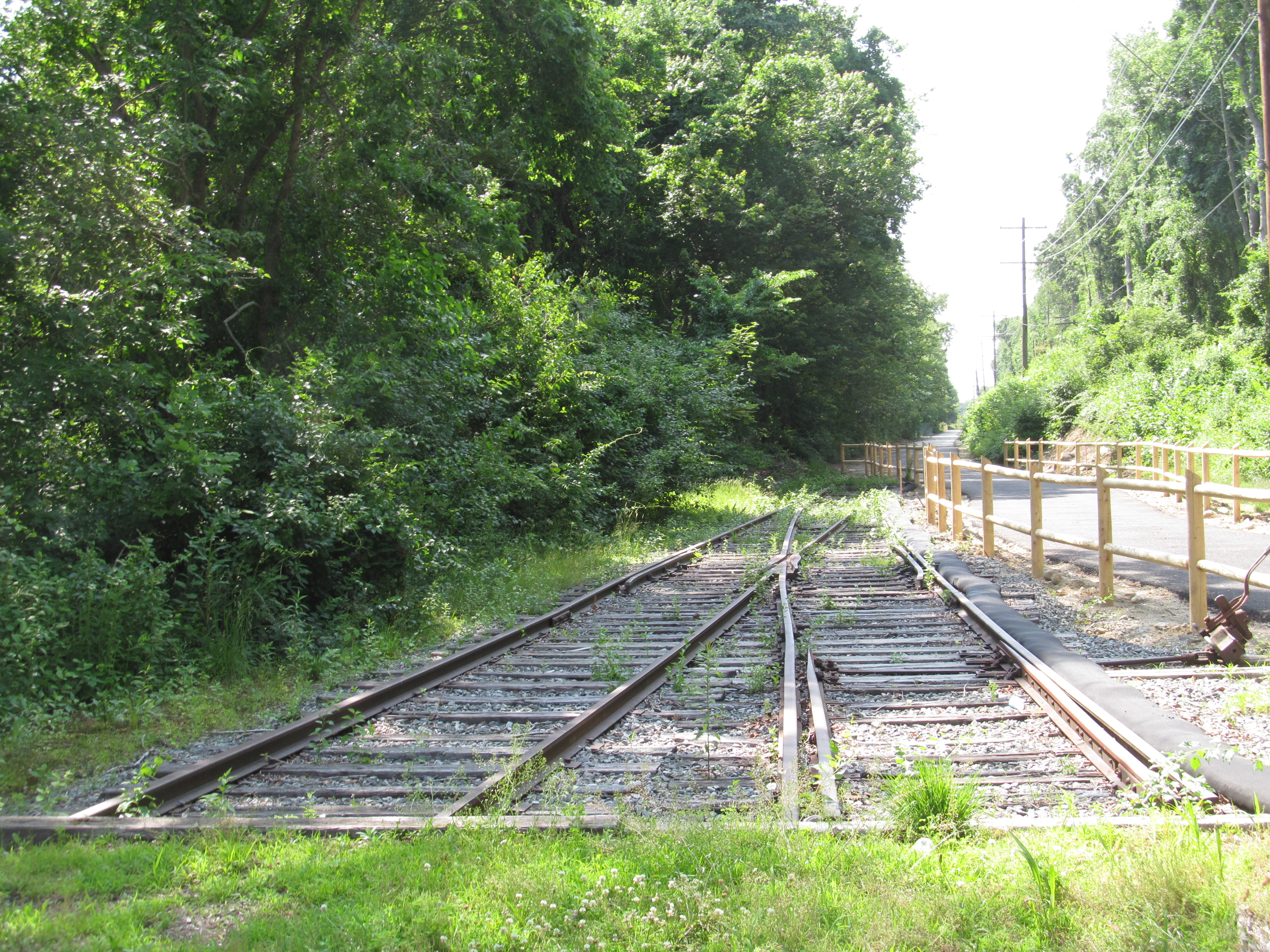 Old switch aside the Washington Secondary Trail in Coventry, Rhode Island